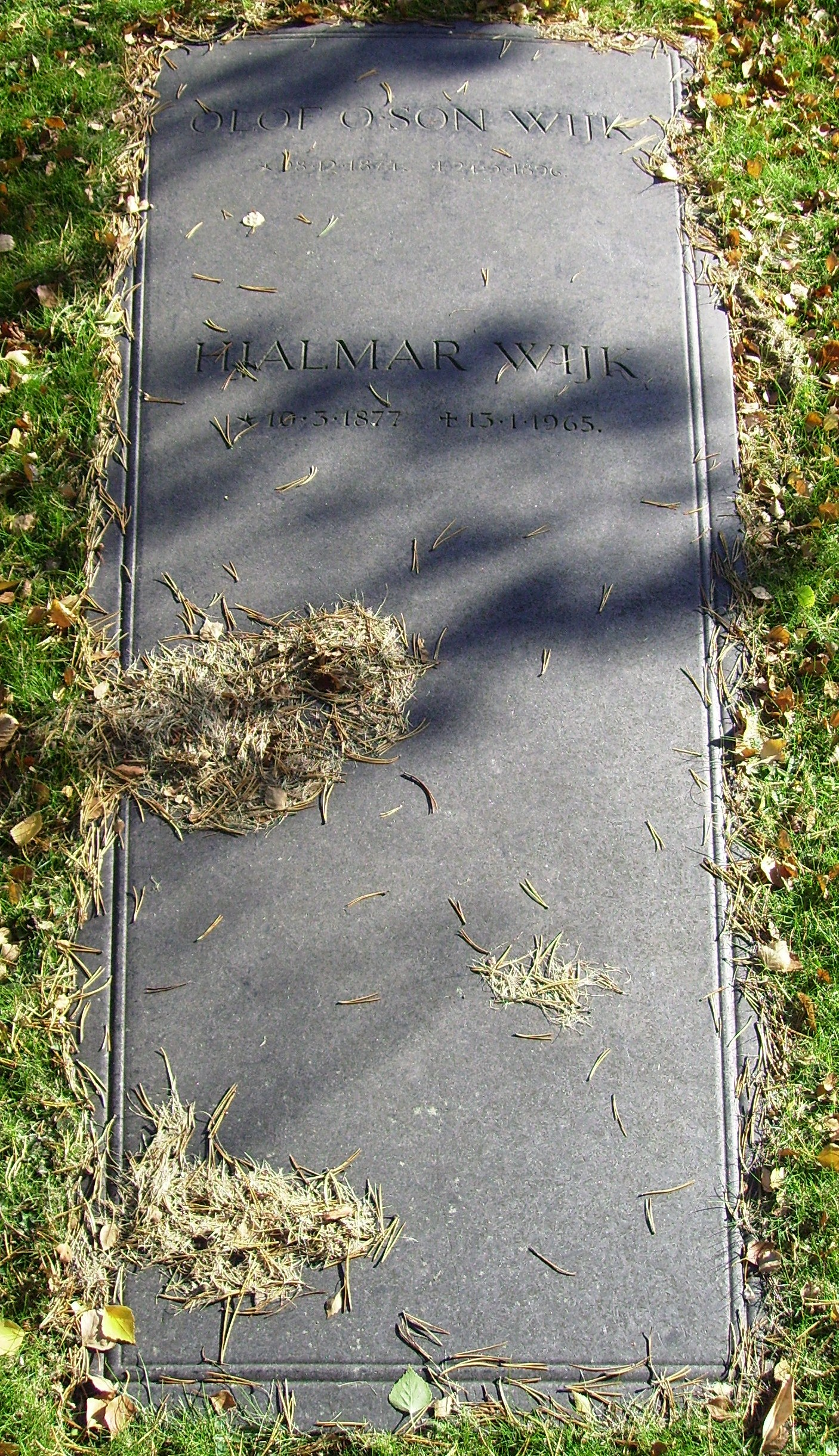 Picture of Hjalmar Wijk's grave at Östra kyrkogården in Göteborg